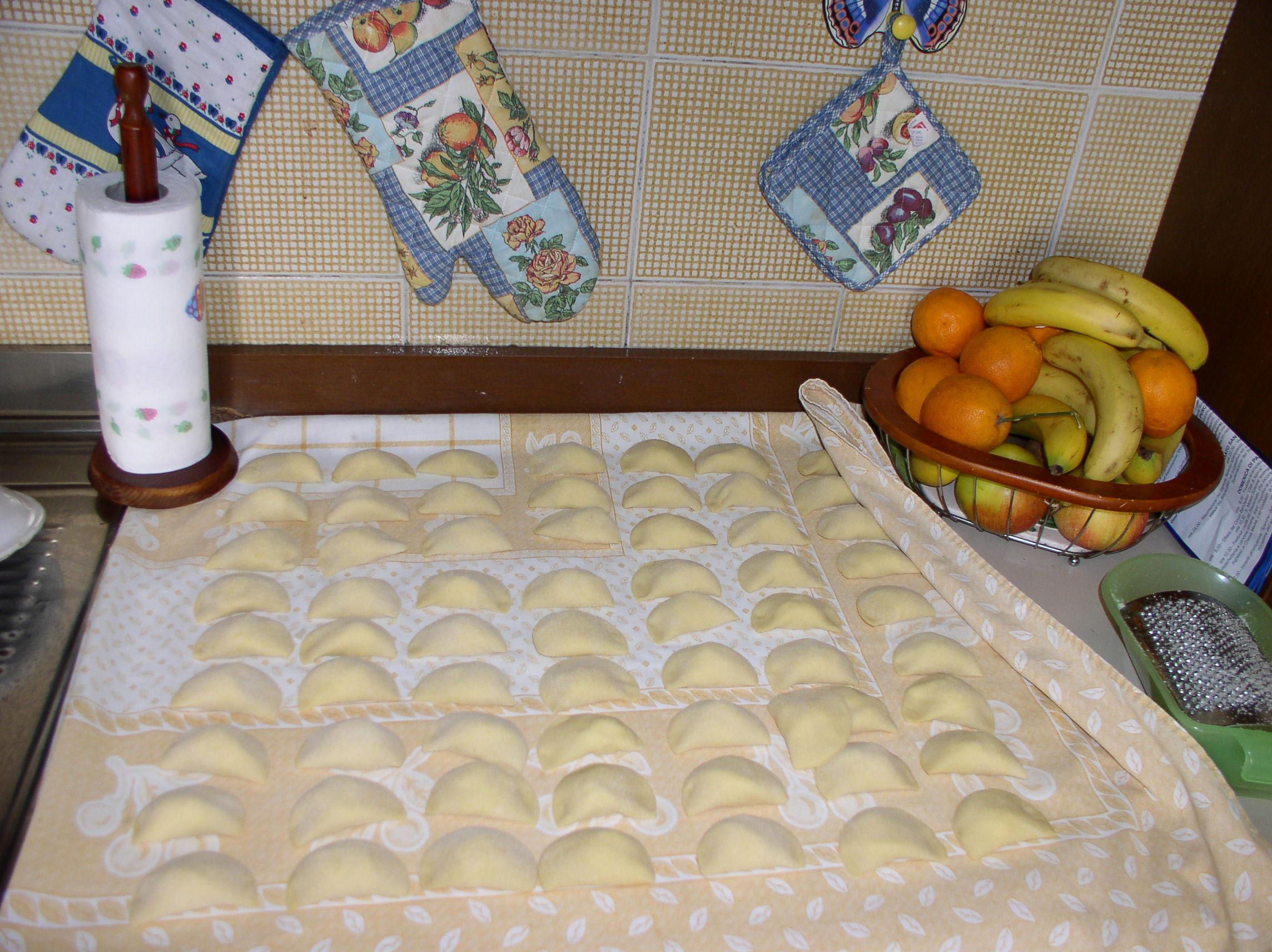 Author: G. Melfi